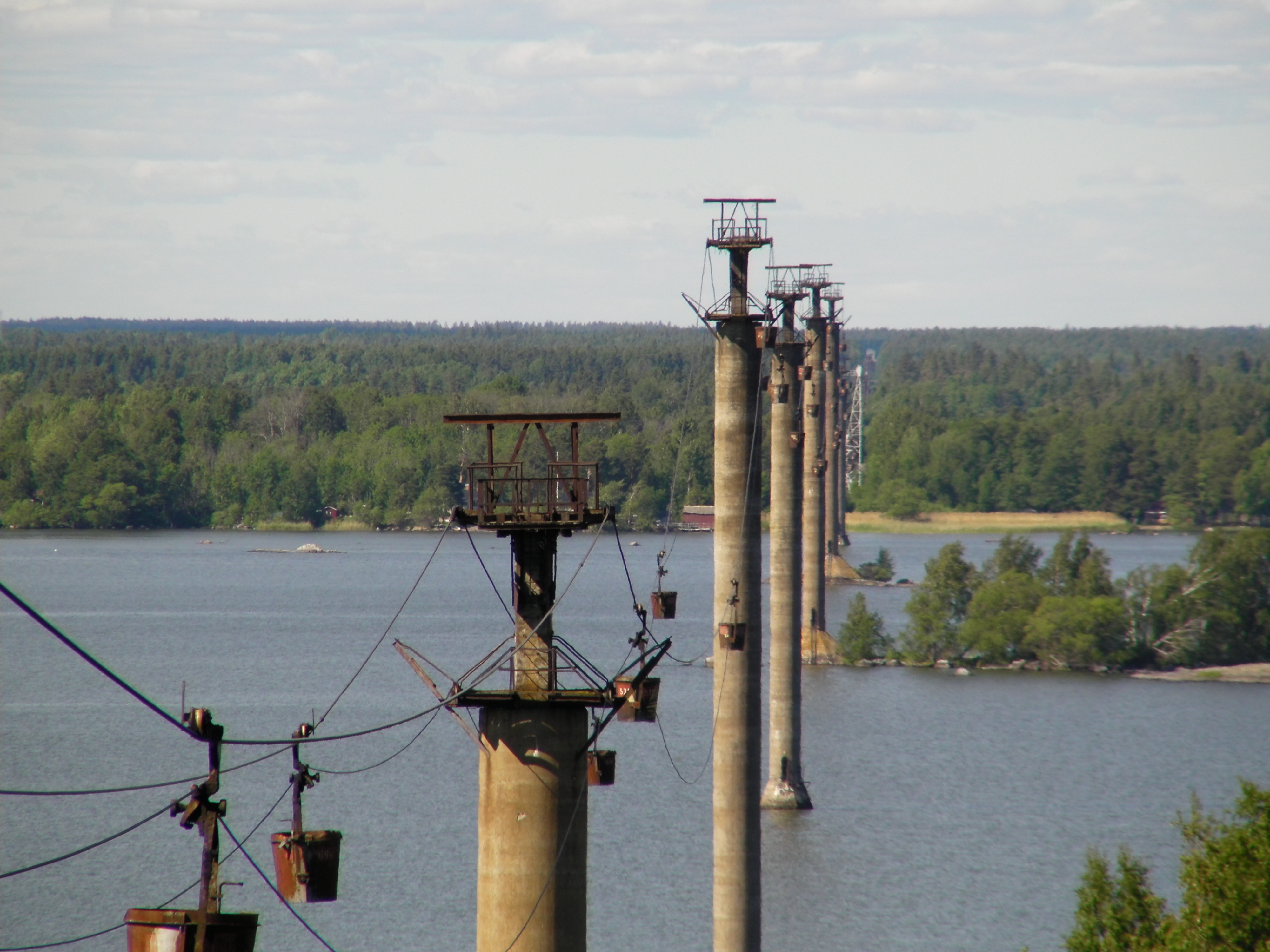 Forsby-Köping limestone cableway, transporting limestone for cement production between 1941-1997, presently the world's longest ropeway.